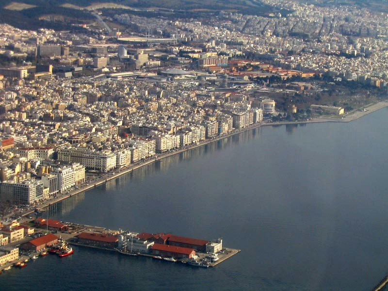 Aerial view of Thessaloniki, Greece